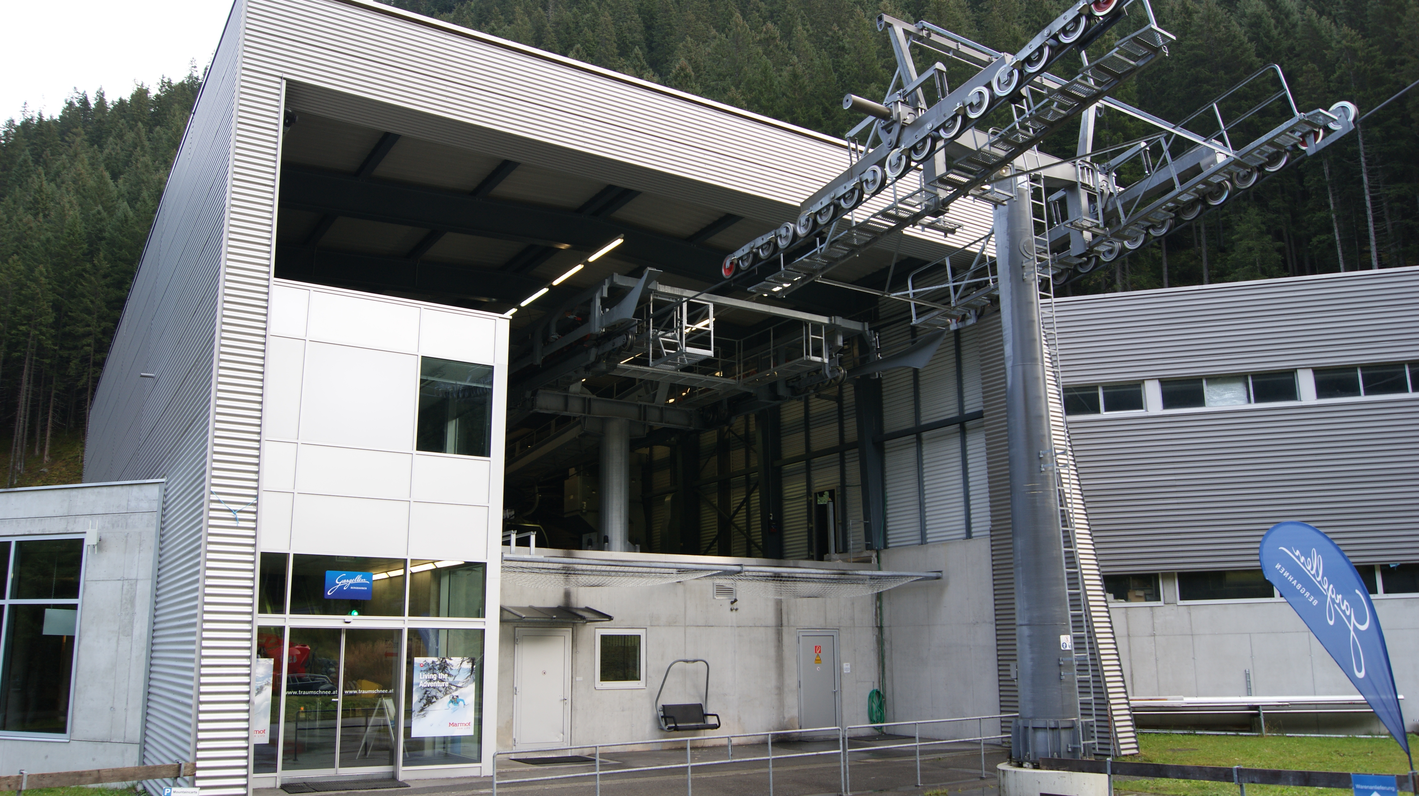 Valley station of the Schafbergbahn in Gargellen (Vorarlberg, Austria).